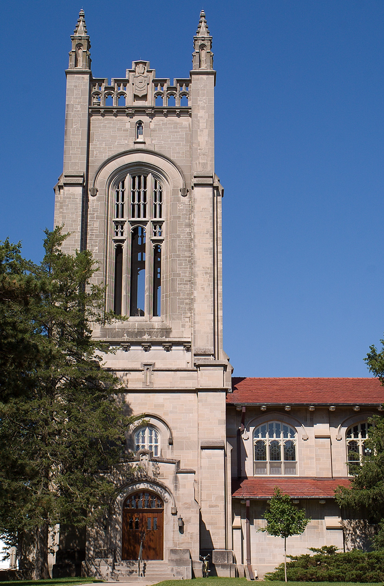 Skinner Memorial Chapel, Carleton College, Northfield, Minnesota. June 2008.